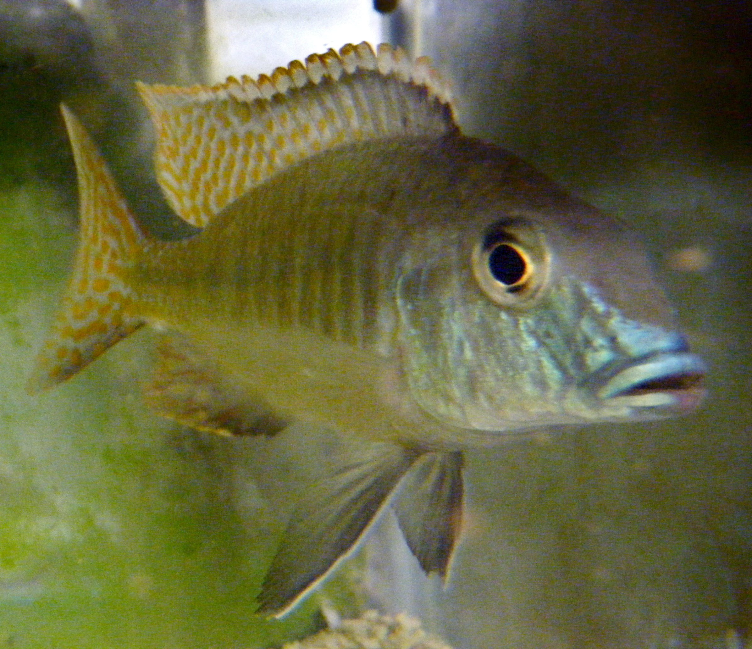 Lethrinops lethrinus, wild caught male from Mazinzi Reef